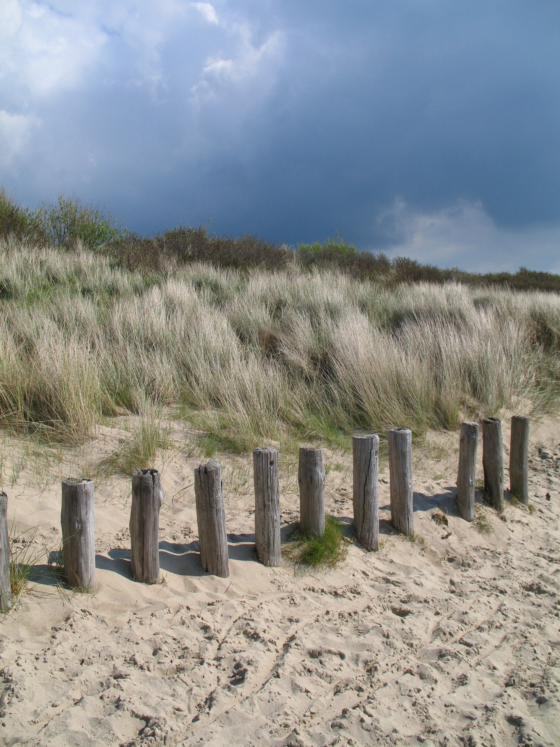 Dunes near the Zwin, Cadzand (province of Zeeland, the Netherlands)